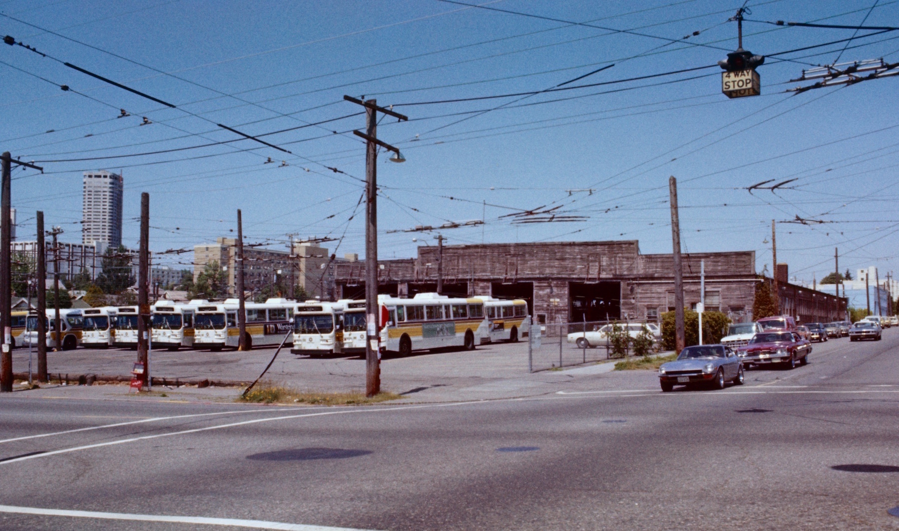 The former Jefferson Base (garage) of Seattle's Metro Transit (part of the Municipality of Metropolitan Seattle at the time, not of King County) viewed from across the intersection of 14th Avenue and Jefferson Street on June 3, 1982, its next-to-last day of operation for scheduled service. The operating fleet was moved to Atlantic Base at the end of the day on June 4, 1982, and all vehicle runs that had been based at Jefferson began operating out of Atlantic starting on June 5. In this photo, the vehicles parked in front of the elderly building were mostly AM General trolleybuses. Metro's 109 trolleybuses of that make entered service in stages between September 1979 and May 1981, so they operated out of Jefferson Base for less than three years. The site is now occupied by Championship Field, of Seattle University.